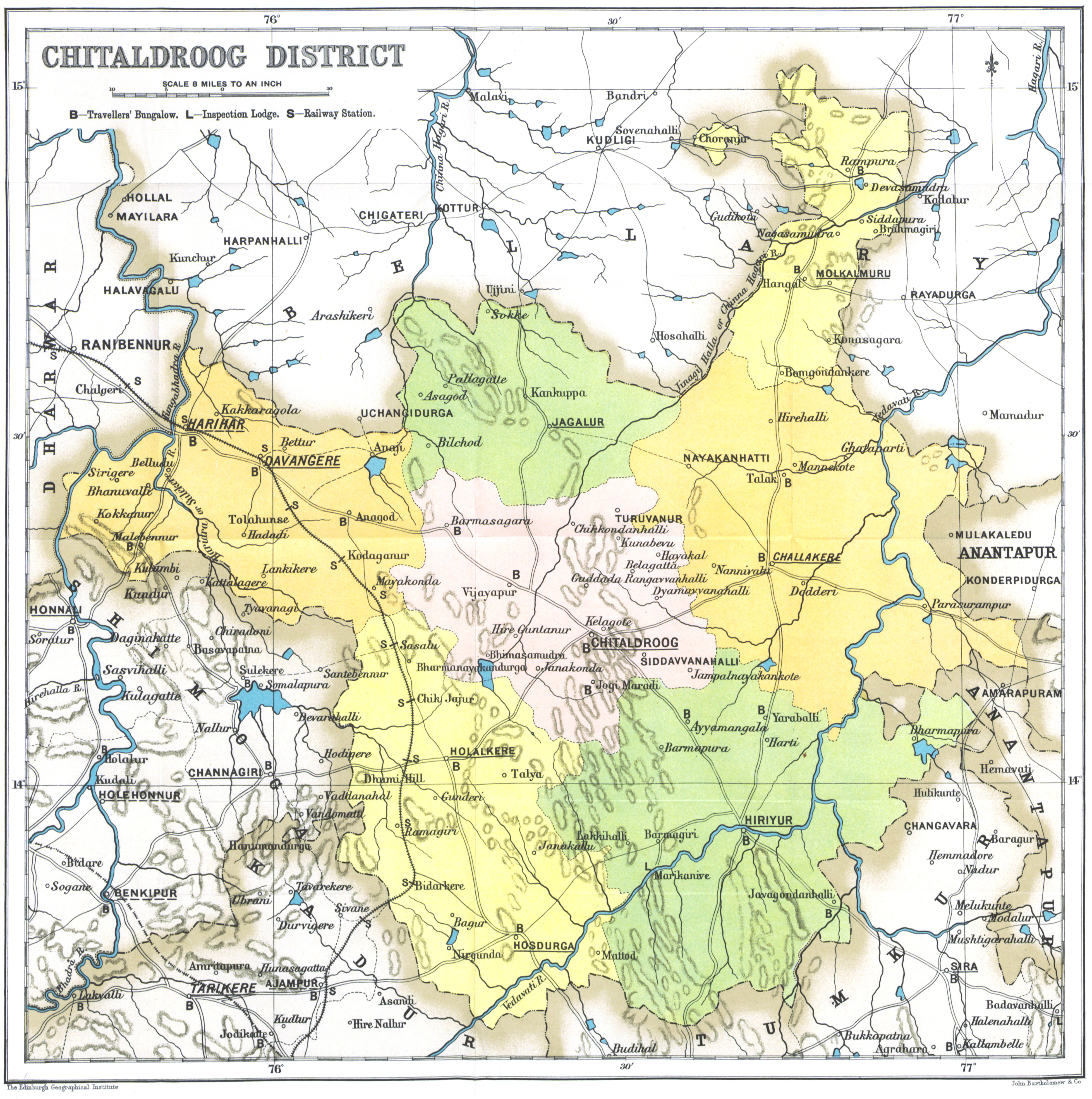 Map of Chitaldroog District